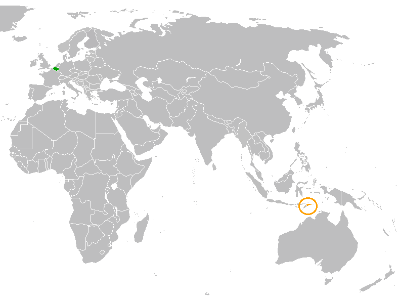 Map showing locations of both Belgium and East Timor